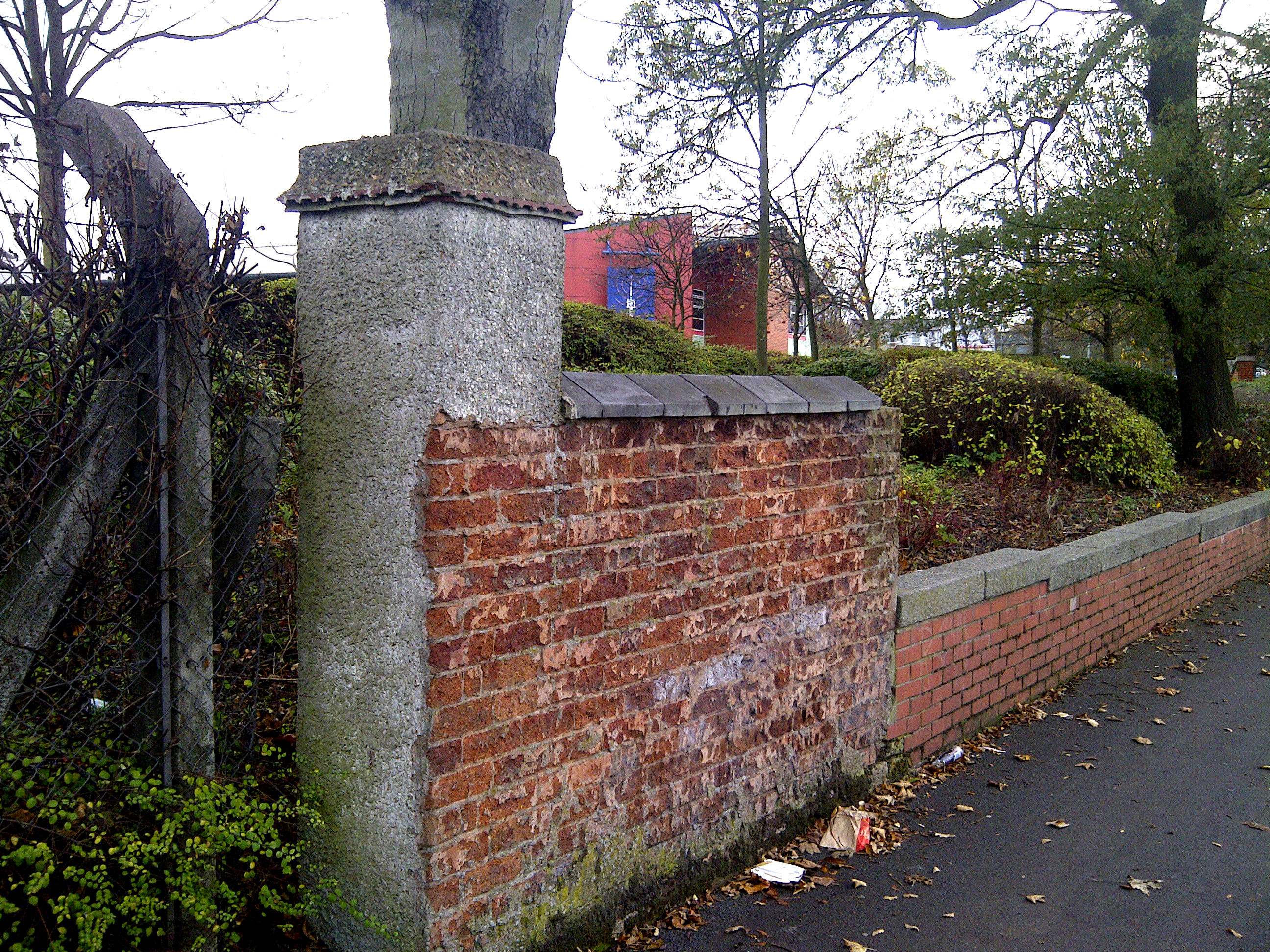 A section of wall and mature trees bordering the A449 Stafford Road, Gorsebrook, Wolverhampton, that was formerly part of the Gorsebrook House site.